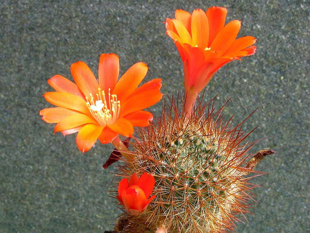 Rebutia ithyacantha (Cárd.) Diers